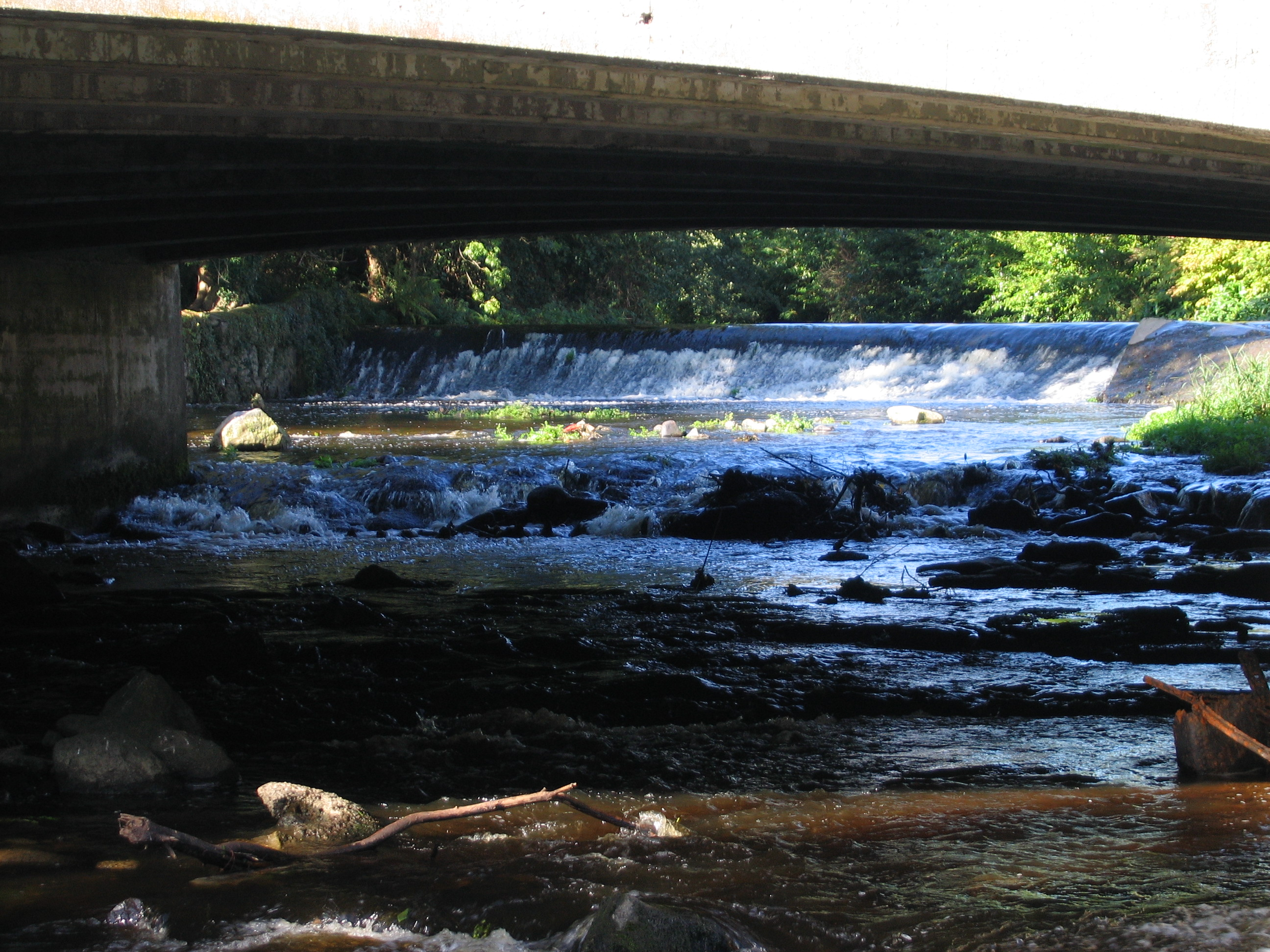 The River Vartry flowing under Main Street, Ashford